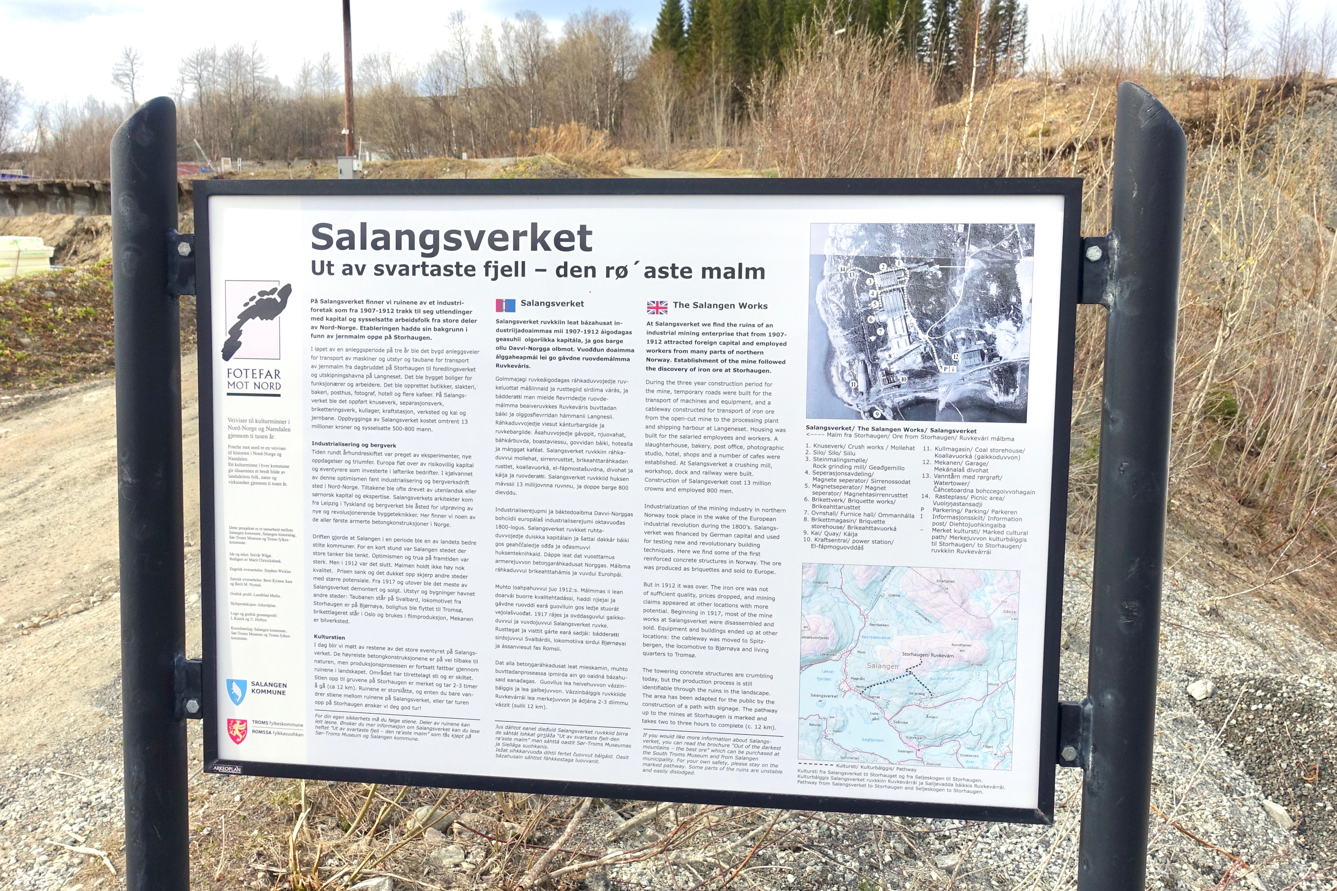 Salangsverket ("Salangen Works") is a village and industrial site in Salangen municipality in Troms county, Norway. The Salangsverket or Salangen Bergverkaktieselskap was an industrial iron ore mining company 1907–1912. The ore was mined at Storhaugen, then processed at and shipped from Salangsverket at Langneset by the Sagfjorden fiord (jernbrikettstøperi, utskipningshavn etc). The ruins of the old industry facility are today a cultural heritage monument and open air museum with a cultural trail, as part of the Sør-Troms Museum. The remains of the huge, reinforced concrete constructions are partly taken over by the surrounding nature.The photo shows an information board about the old Salangsverket with an aerial photo and a map of the area. The board is produced by Fotefar mot nord, Salangen kommune, and Troms fylkeskommune and have texts in Norwegian (Salangsverket. Ut av svartaste fjell, den rø'aste malm.), Sámi and English.Photo taken on May 7th, 2019.